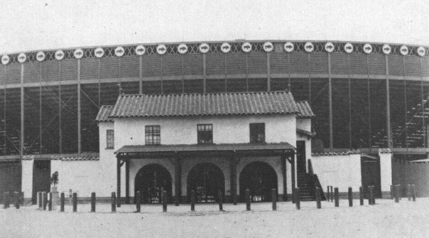 The façade of Buffalo Stadium, circa 1948